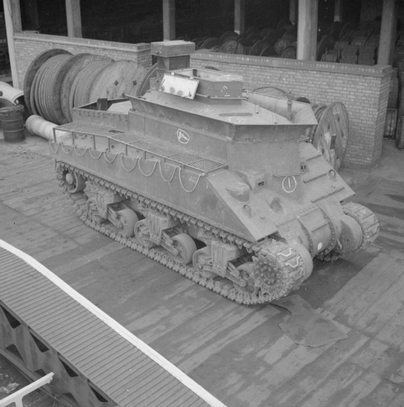 Sherman BARV (Beach Armoured Recovery Vehicle), Earls Court, London